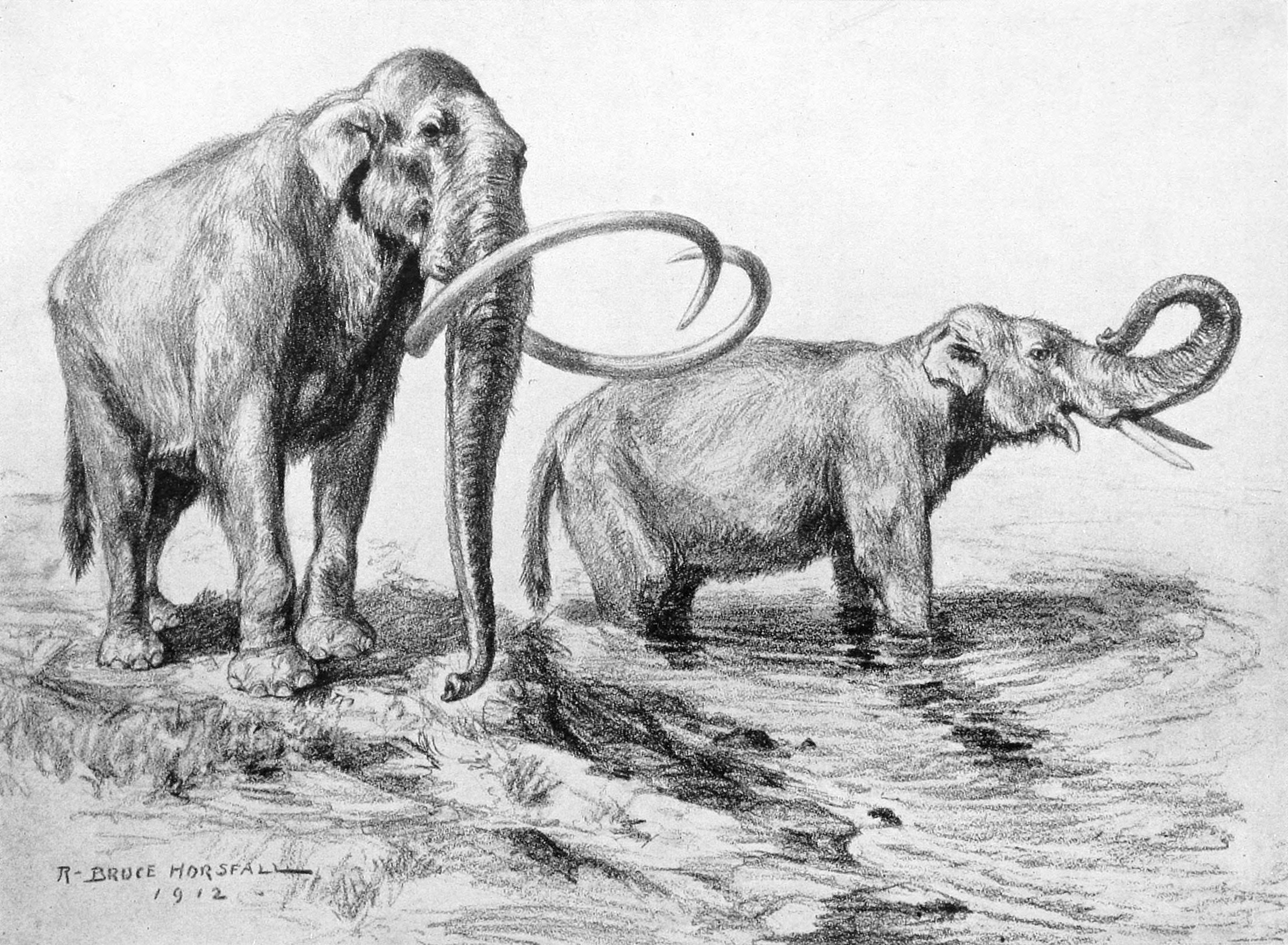 Columbian mammoth (Mammuthus columbi)